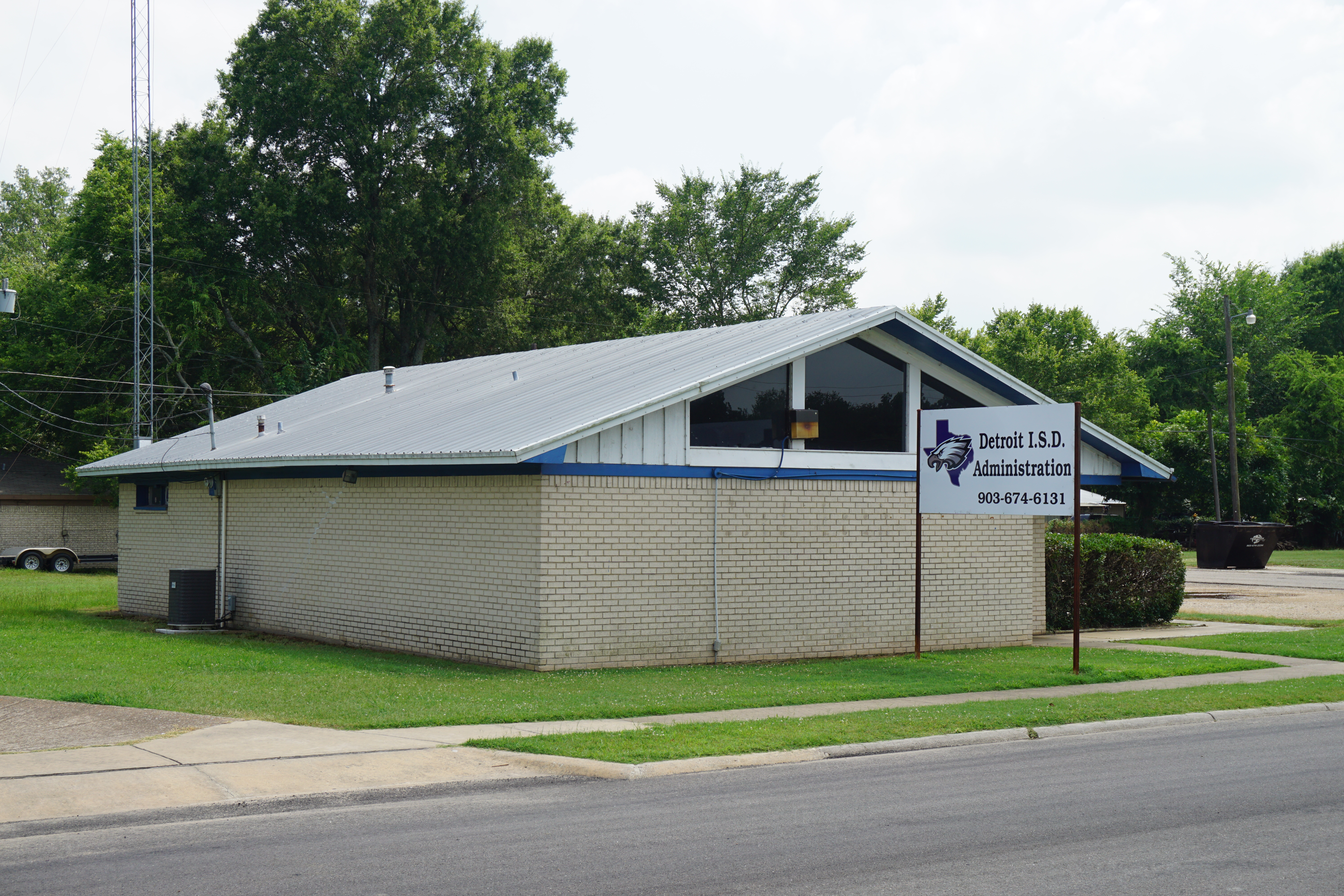 The Detroit Independent School District Administration building in Detroit, Texas (United States).